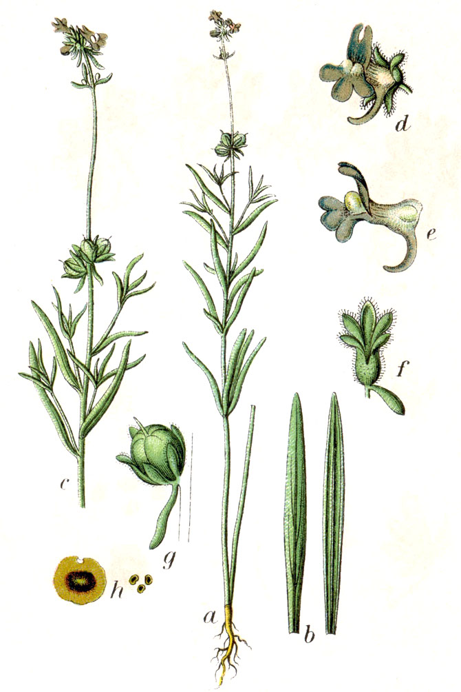 Linaria arvensis (L.) Desf., syn. Antirrhinum arvense L. Original Caption Acker-Leinkraut, Antirrhinum arvense